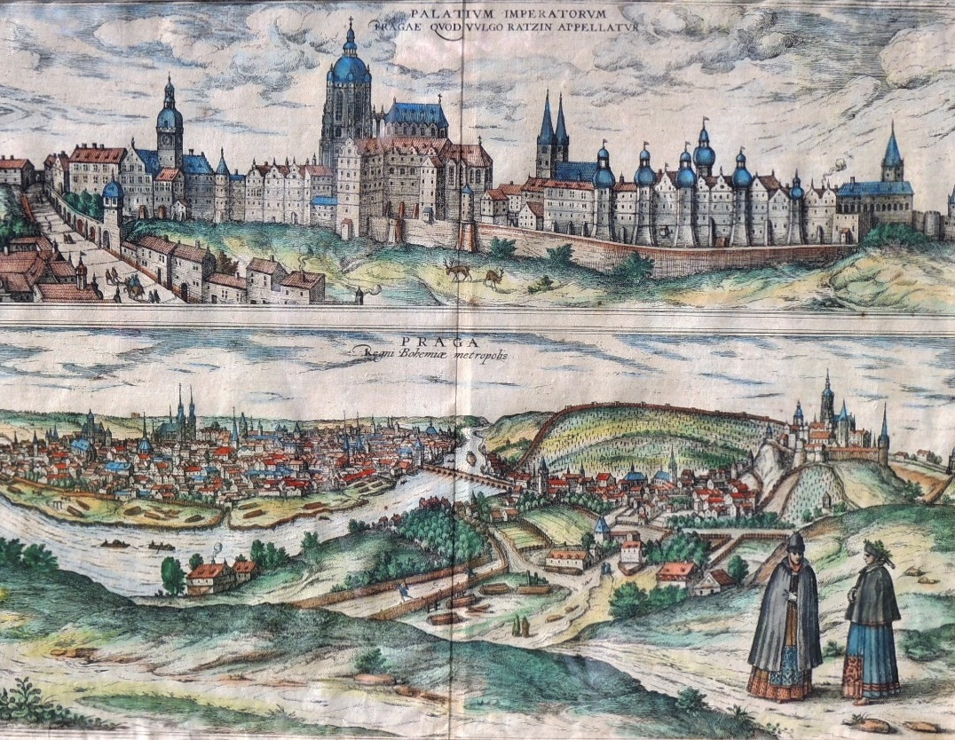 Hoefnagel: Prague in 1595